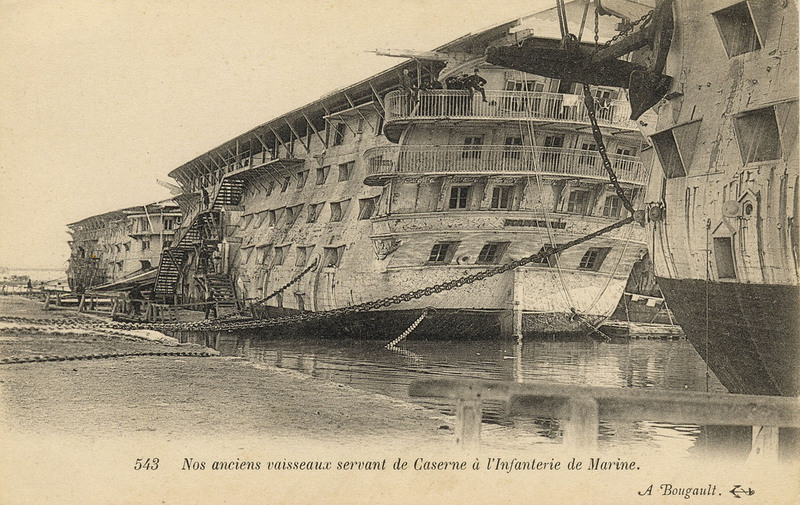 French ships Mars (ex-Sceptre, ex-Masséna), Souverain and Eylau Text: Our old warships now serving as barracks for our marine infantry.